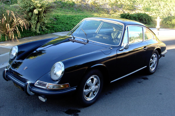 Porsche 911S, built 1967, colour black, Porsche paint code 6609, forged 'Fuchs' wheels size 4,5 x 15